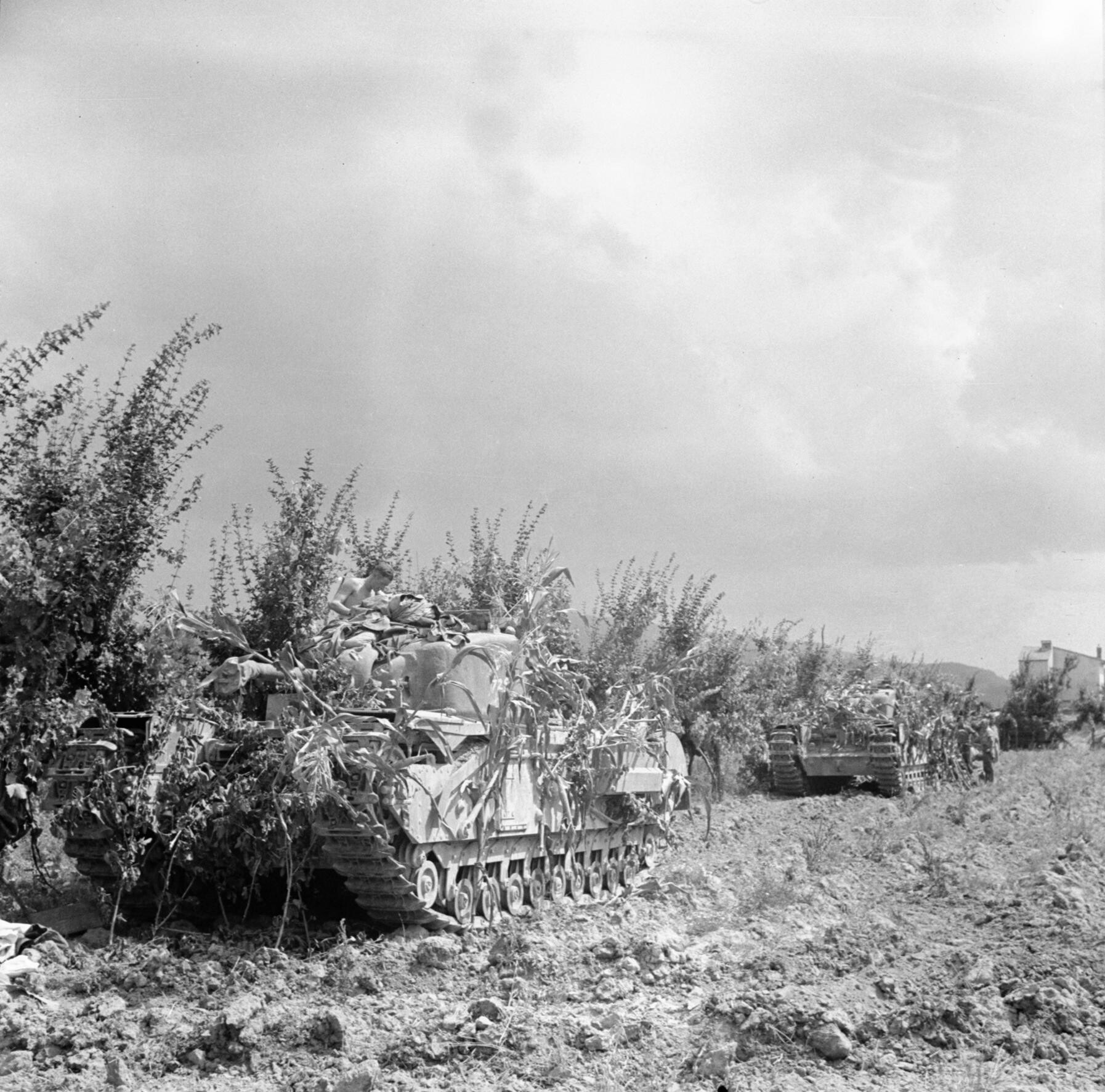 IWM caption : Heavily camouflaged Churchill tanks of the North Irish Horse, 25th Tank Brigade, Italy.